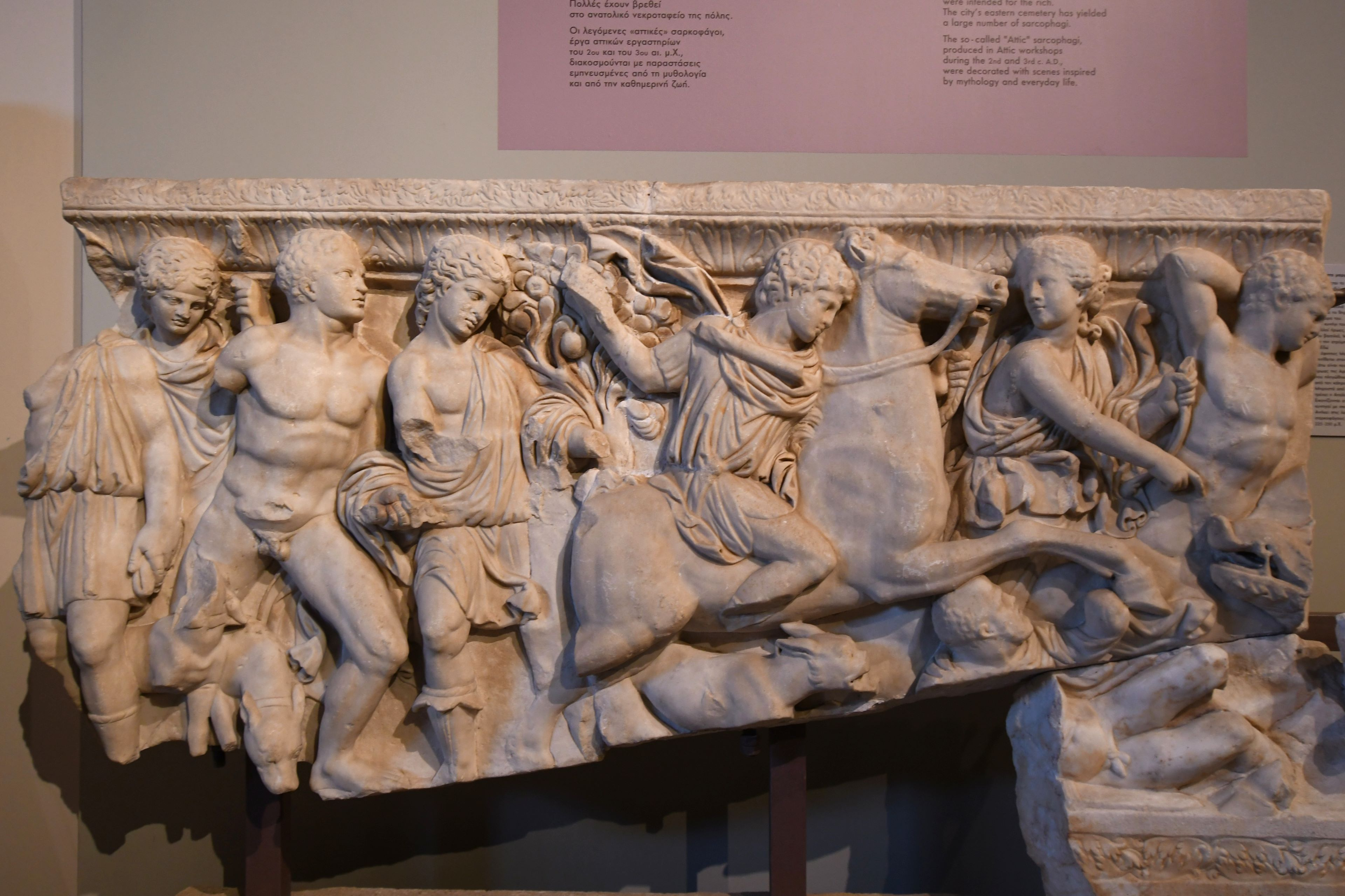 Archäologisches Museum Thessaloniki (Αρχαιολογικό Μουσείο Θεσσαλονίκης) Part of a marble sarcophagus depicting the Caledonian boar-hunt: Meleager, the son of king Oineus of Aetolian, is riding his horse on the hunt guided by the huntes Atalanta (225-250 A.D.)